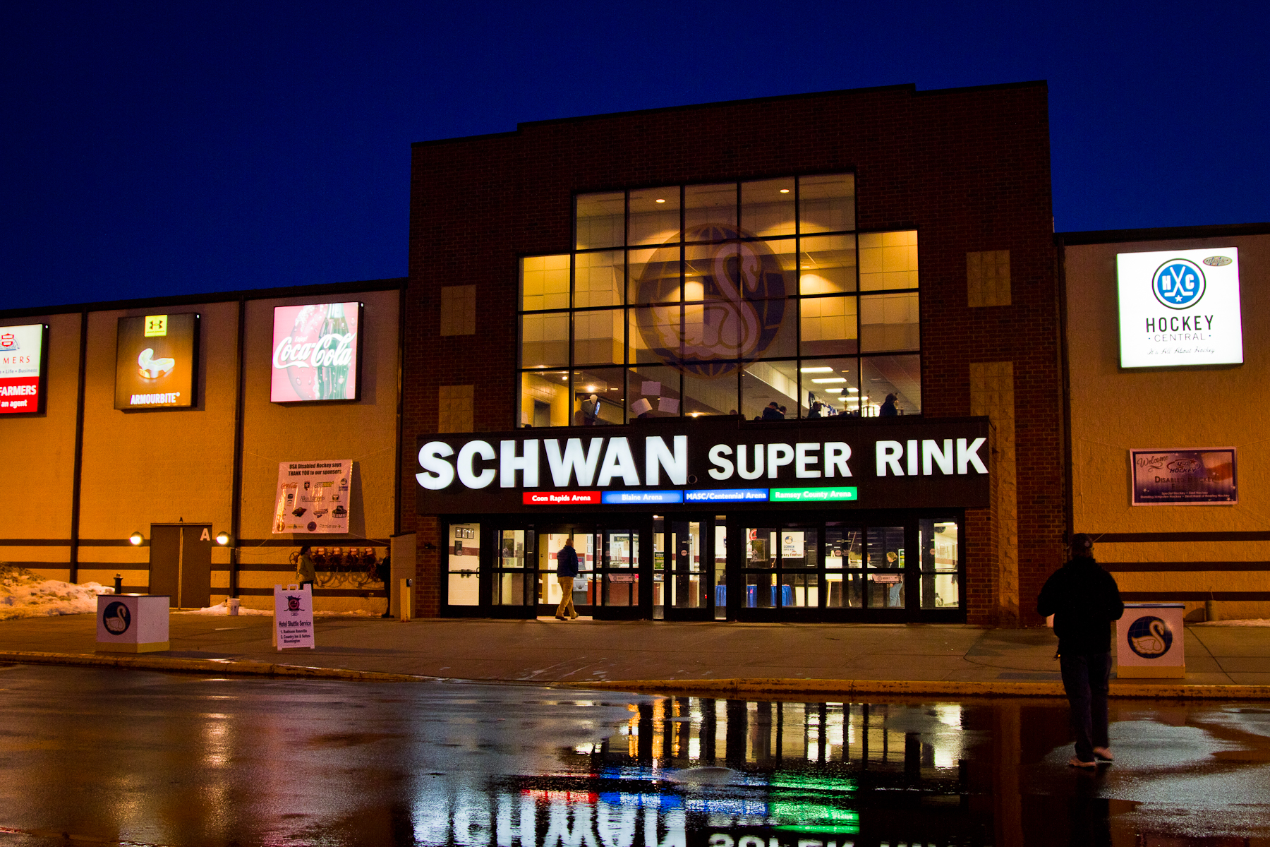 Schwan Super Rink at the National Sports Center in Blaine, Minnesota.